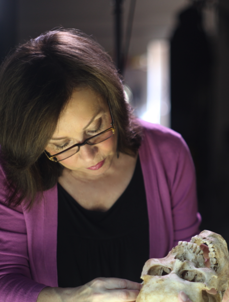 Picture of Karen T. Taylor with a skull from the set of "The Decrypters". Other information This photo is being put on the page with full permission of Karen T. Taylor, owner of the photograph.